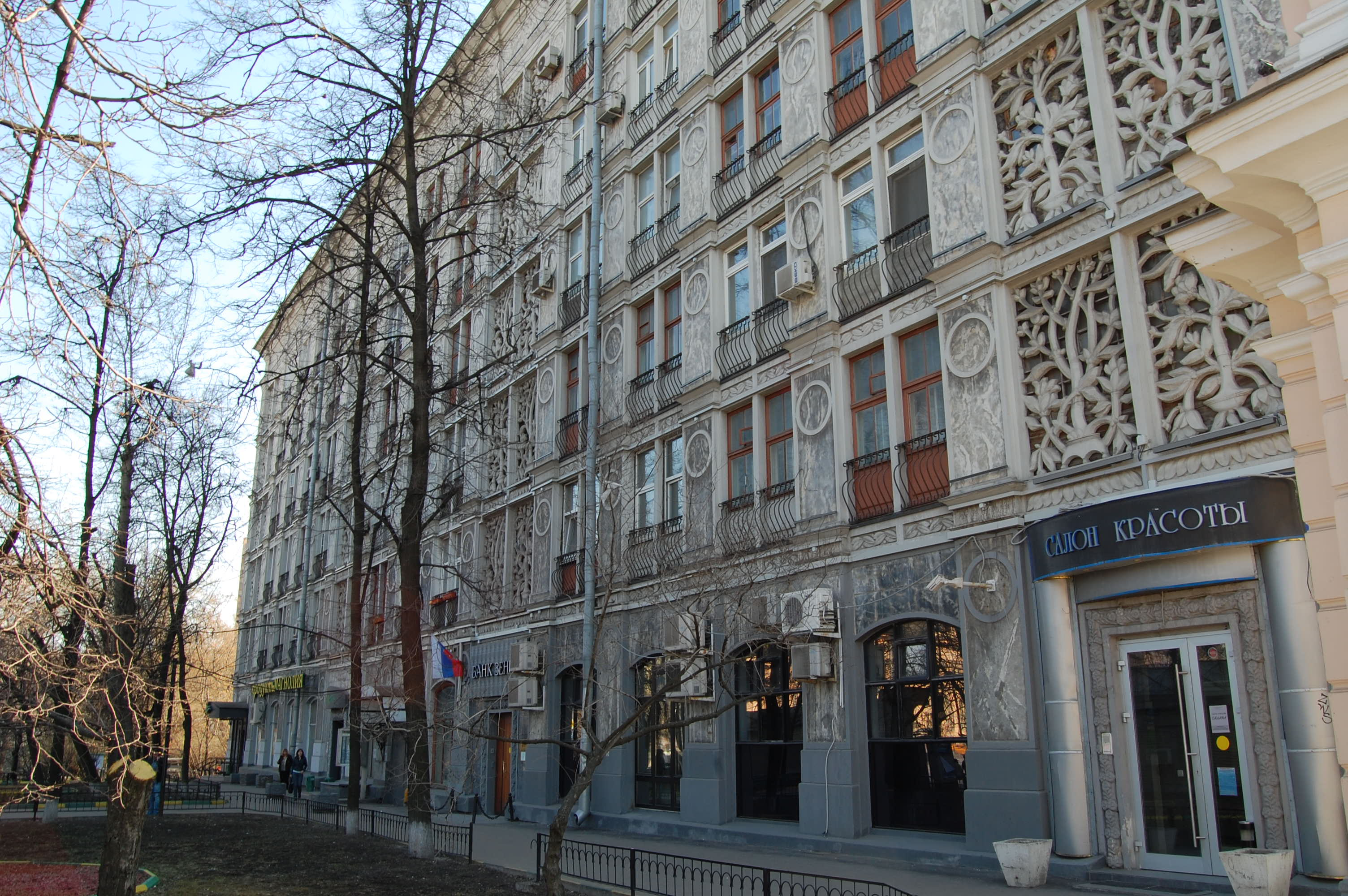 Burov's house. 27, Leningradsky prospect